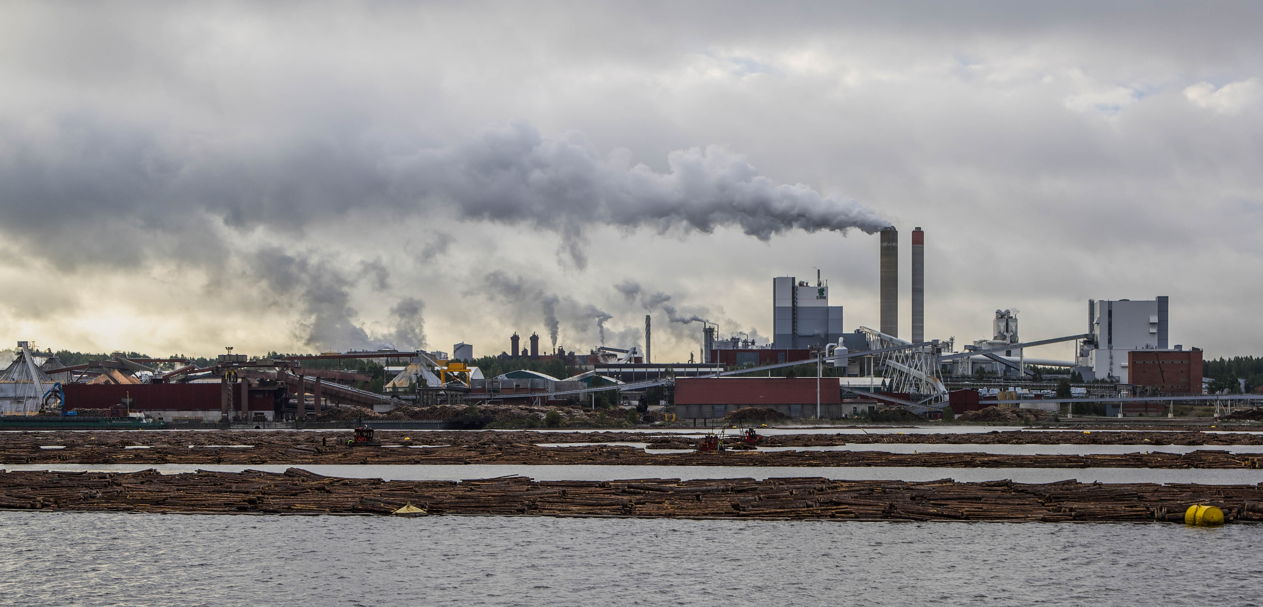 Kaukas paper mill in Lappeenranta, Finland